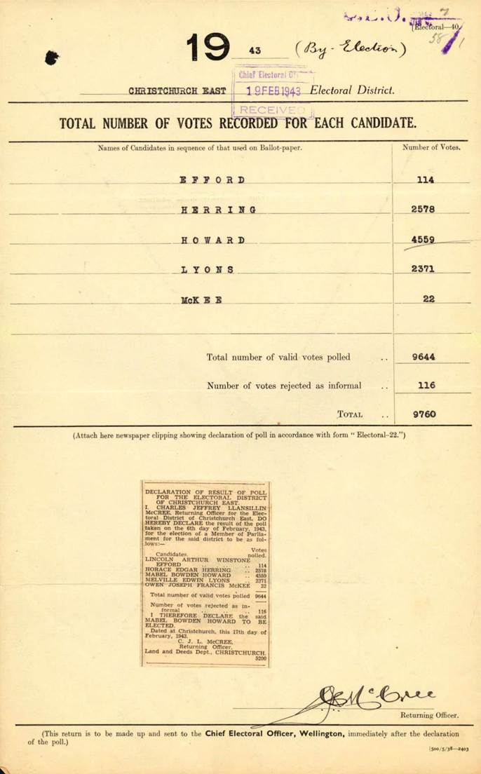 Official record from the Electoral Department of the Christchurch East by-election, 1943. It shows the total number of votes for each candidate and signed by Charles McCree, the Returning Officer.